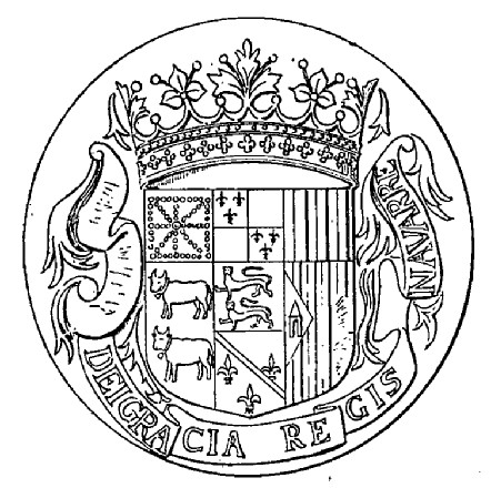 John III of Navarre